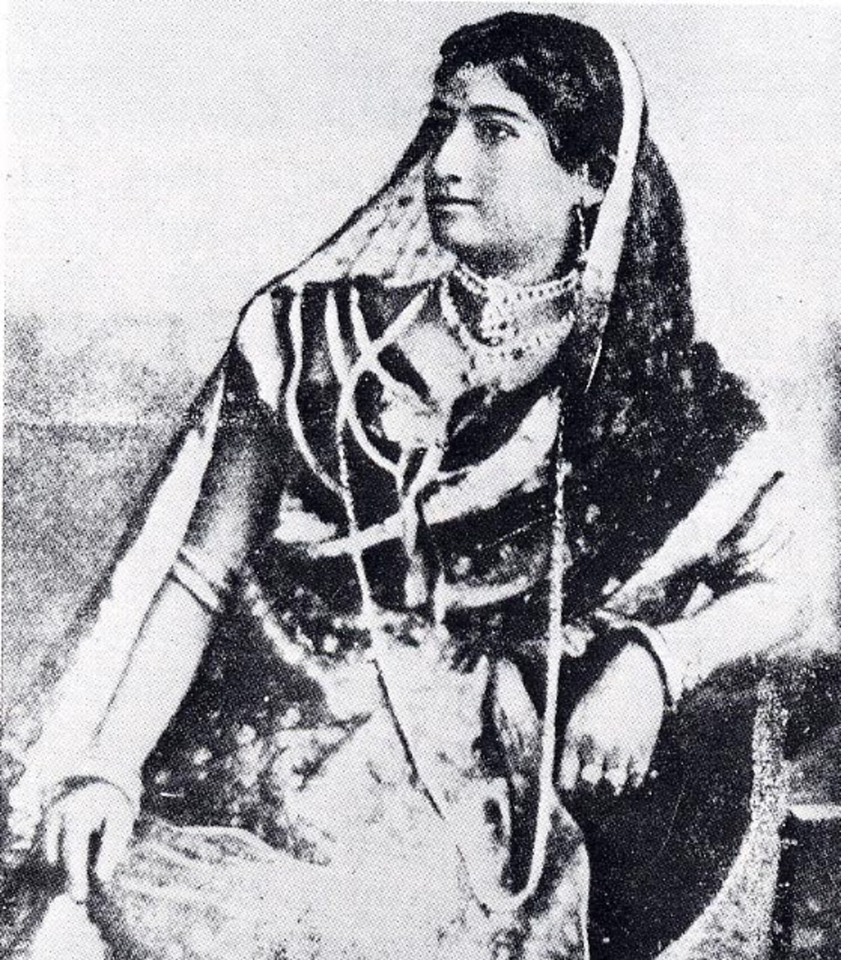 Binodini Dasi (1862–1941), also known as Notee Binodini.